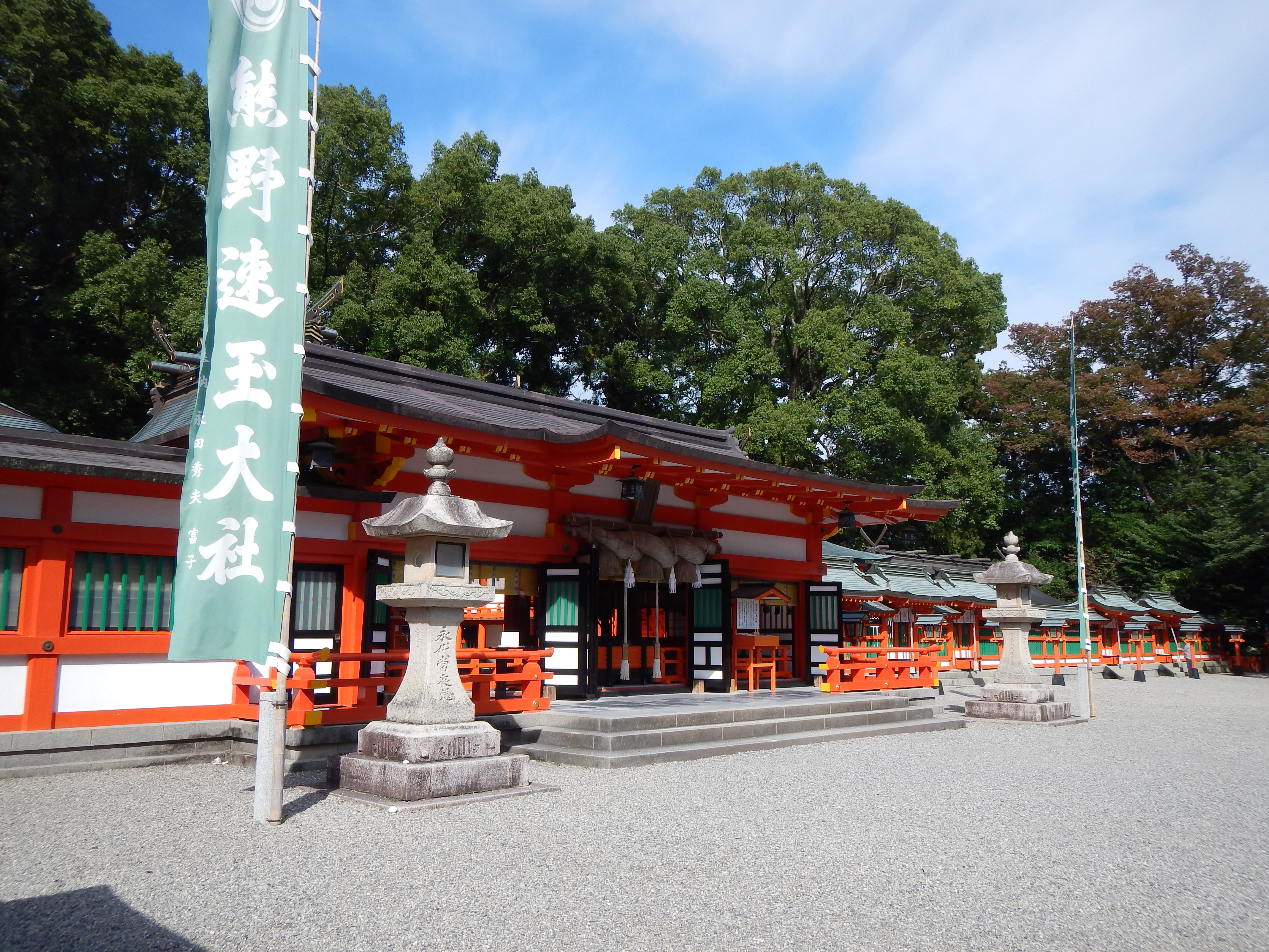 Kumano Kodo pilgrimage route Kumano Hayatama Taisha World heritage 熊野古道 熊野速玉大社